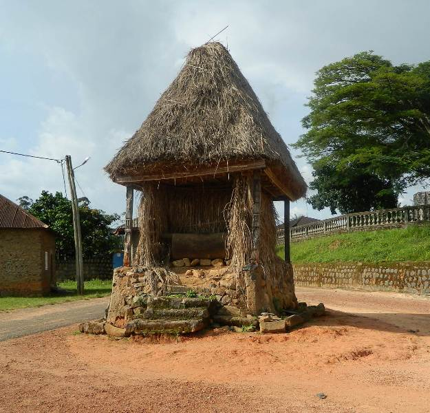 This hut at the Bafut Palace houses the talking drum, or a large wooden gong, which is played as a signal to rally the villagers to the Palace for the Kings important announcements